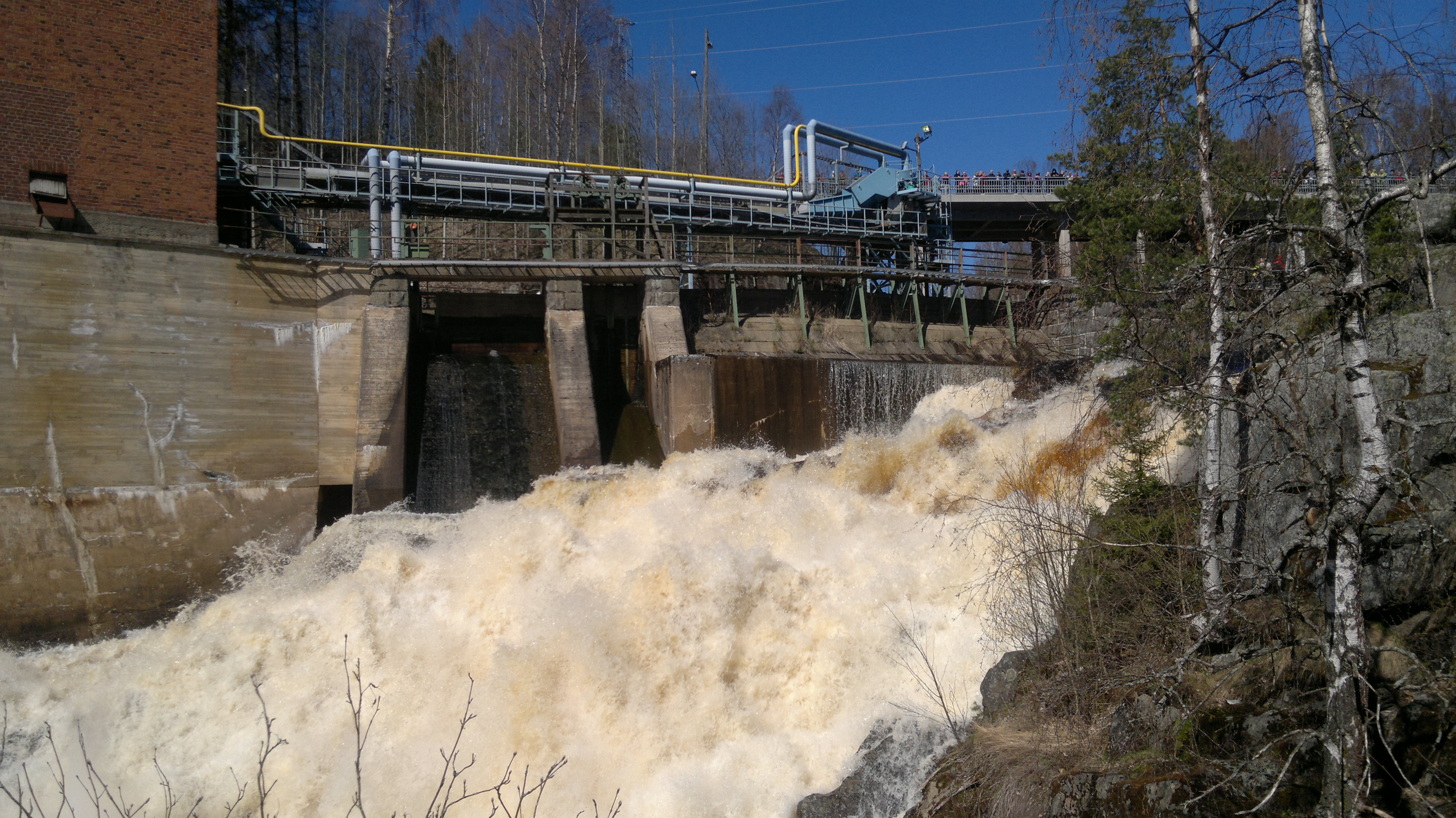 Kyröskoski hydroelectric power station. Dam gates opened on 1st May 2012 for Kyröskoski rapids show.